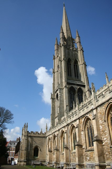 St.James tower & spire Rising 182 feet, St.James' spire is visible for miles around